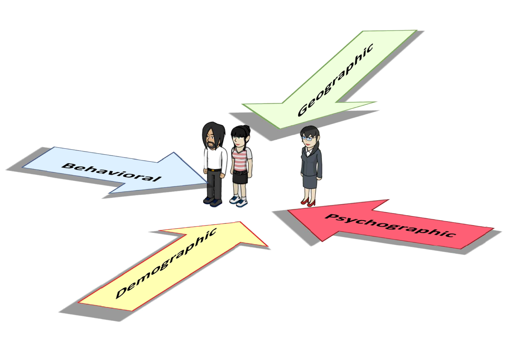 created in Photoshop using image of people from Wiki Commons as the base